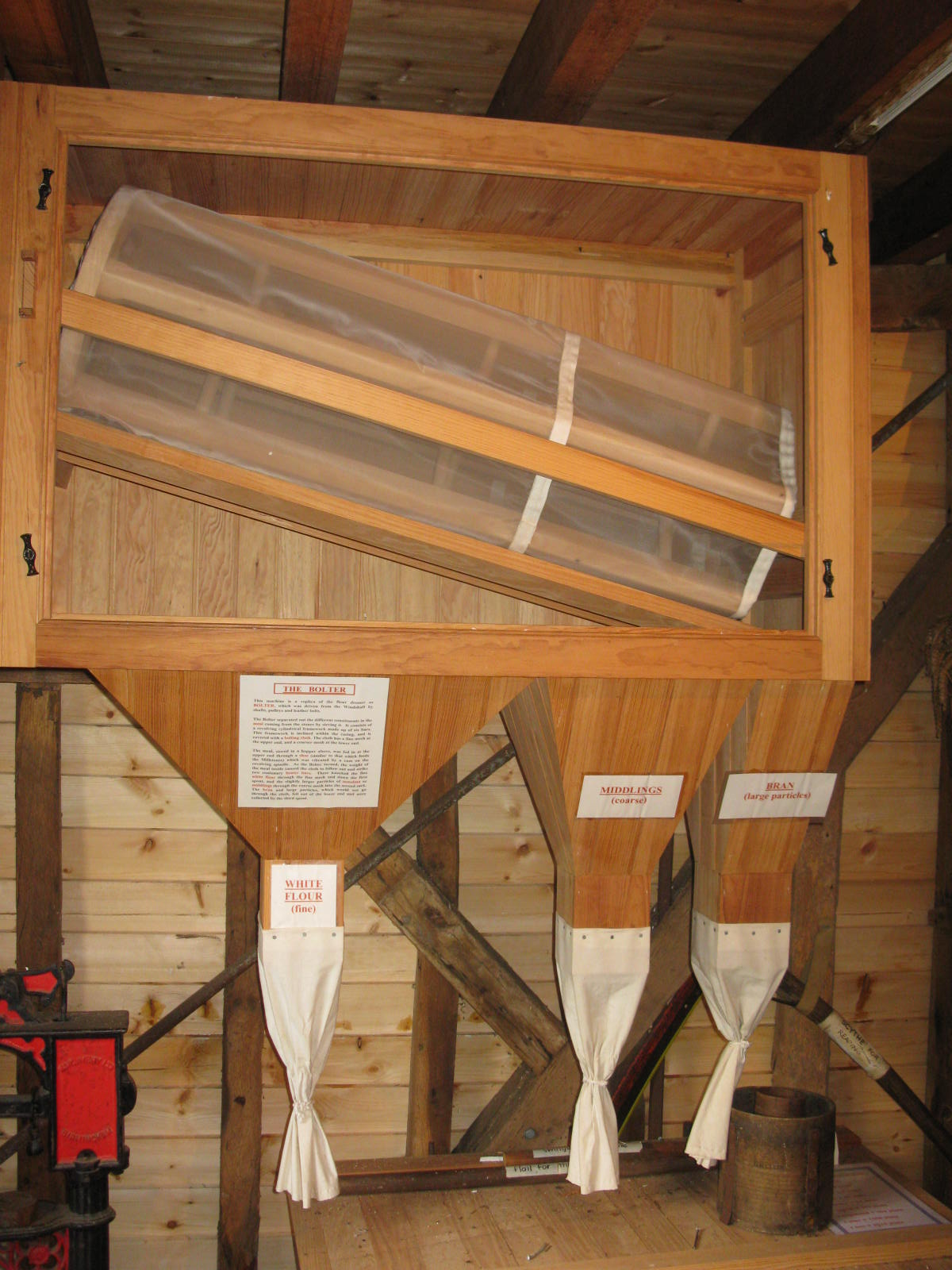 The reconstructed bolter, Cromer Mill, Ardeley